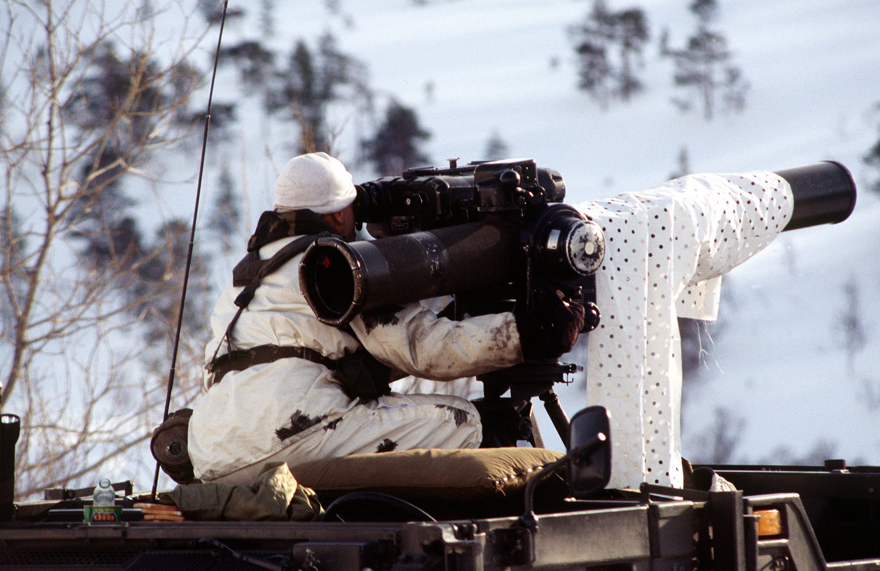 An Italian Army TOW missile crew sets up a road check point during the exercise STRONG RESOLVE 95. The exercise is designed to employ the rapid deployment and use of multinational maritime, air and land forces in a military response.